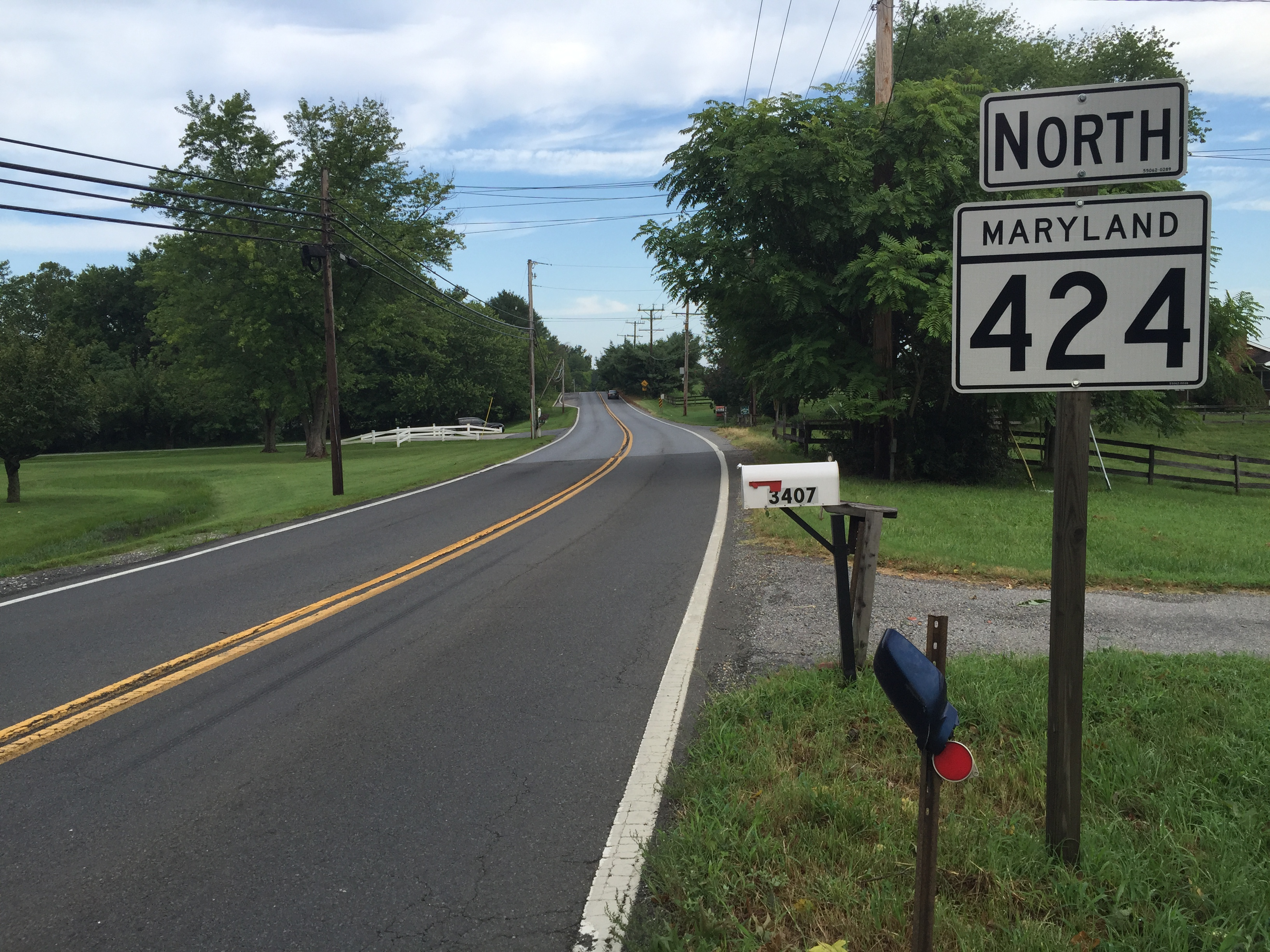 View north along Maryland State Route 424 (Davidsonville Road) just north of Maryland State Route 214 (Central Avenue) in Davidsonville, Anne Arundel County, Maryland